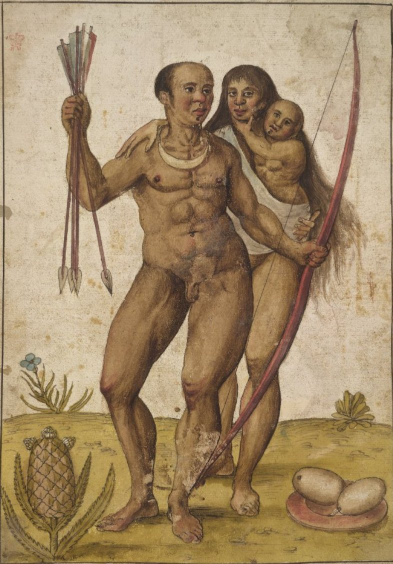 Tupinamba Indian man, woman and child; the man holds a bow and arrows and wears a neck-ornament, the baby in a sling, various fruit depicted in the foreground